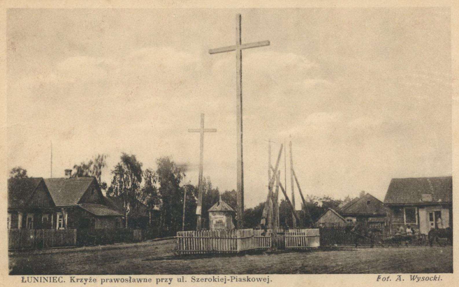 Luninets town (Poland, Western Belarus) - Orthodox crosses on Shyrokaya street, 1920s AD